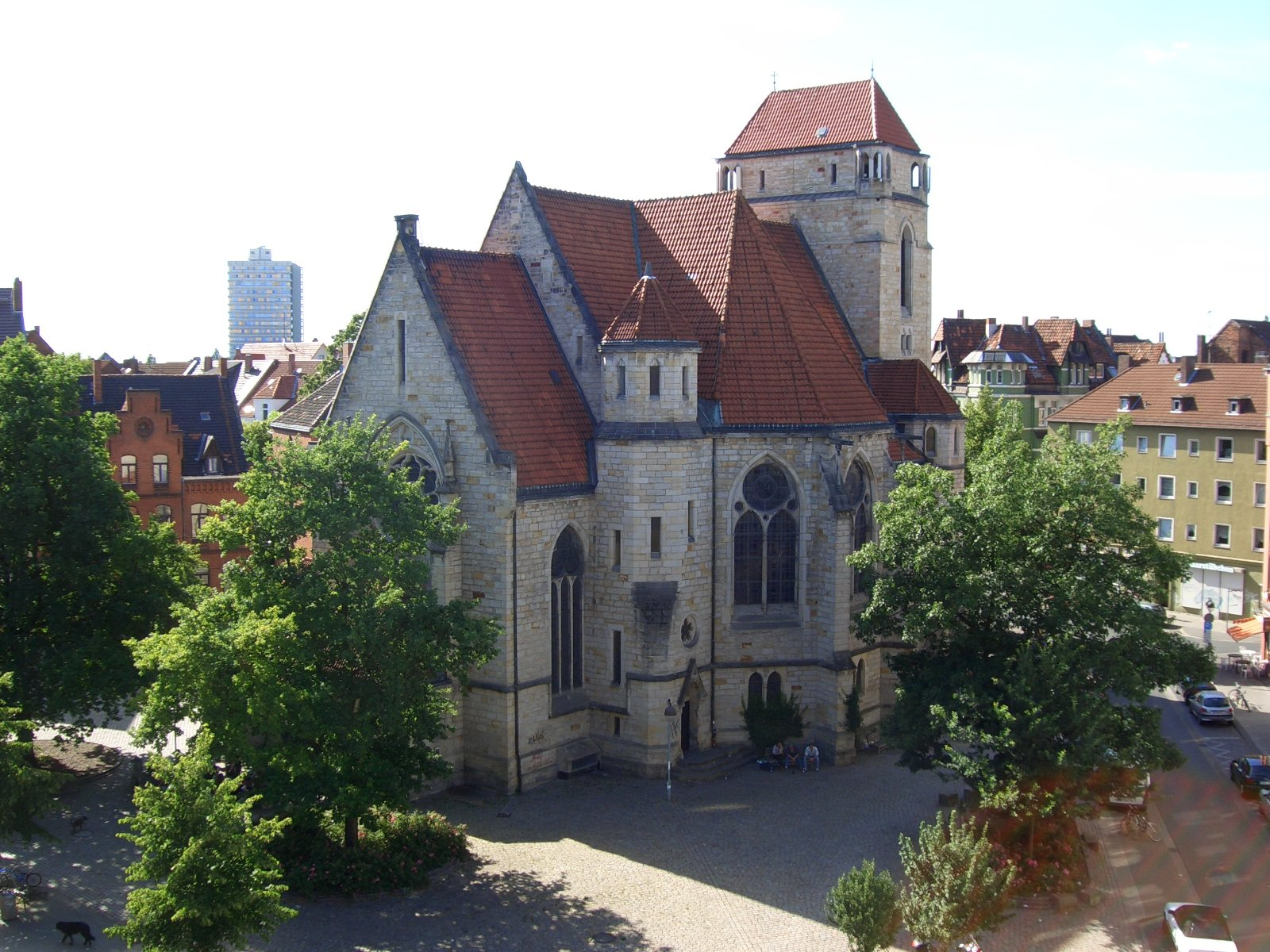 Lutherkirche at Hannover (Germany), build 1895-1898 by Rudolph Eberhard Hillbrand, destroyed 1945, renewed 1948-1957. View from the south-east.